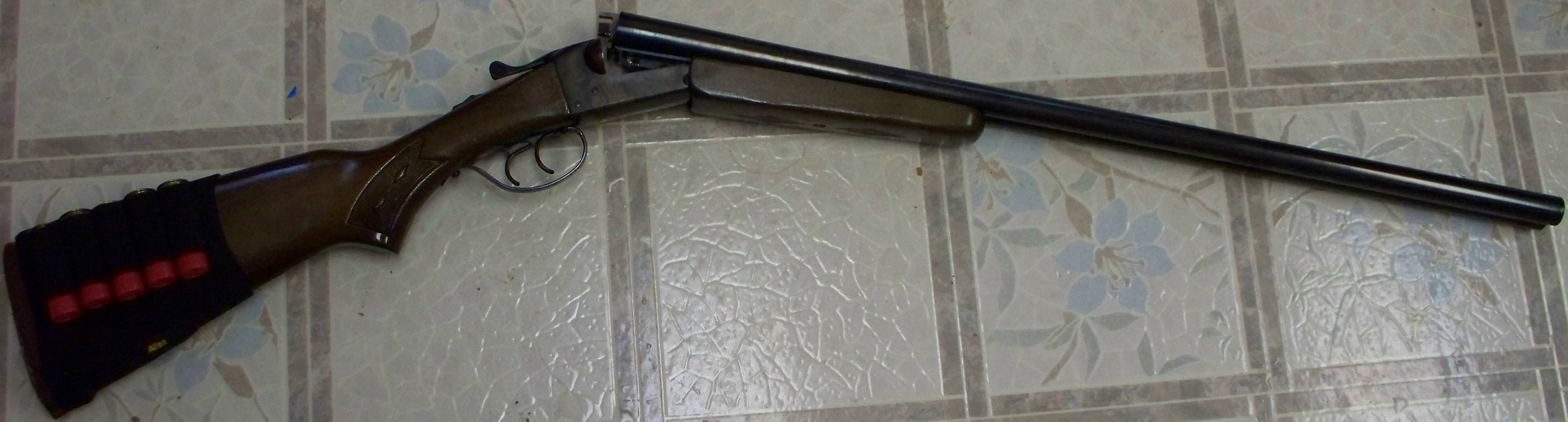 Steven 511A Shotgun